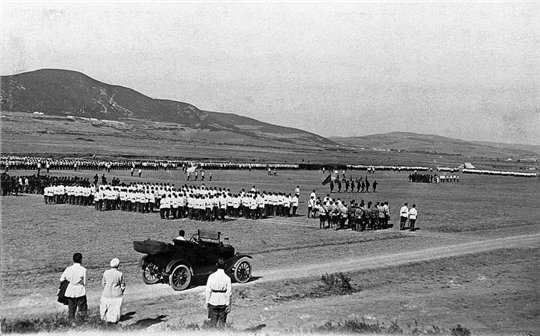 Gallipoli and Russian White Army